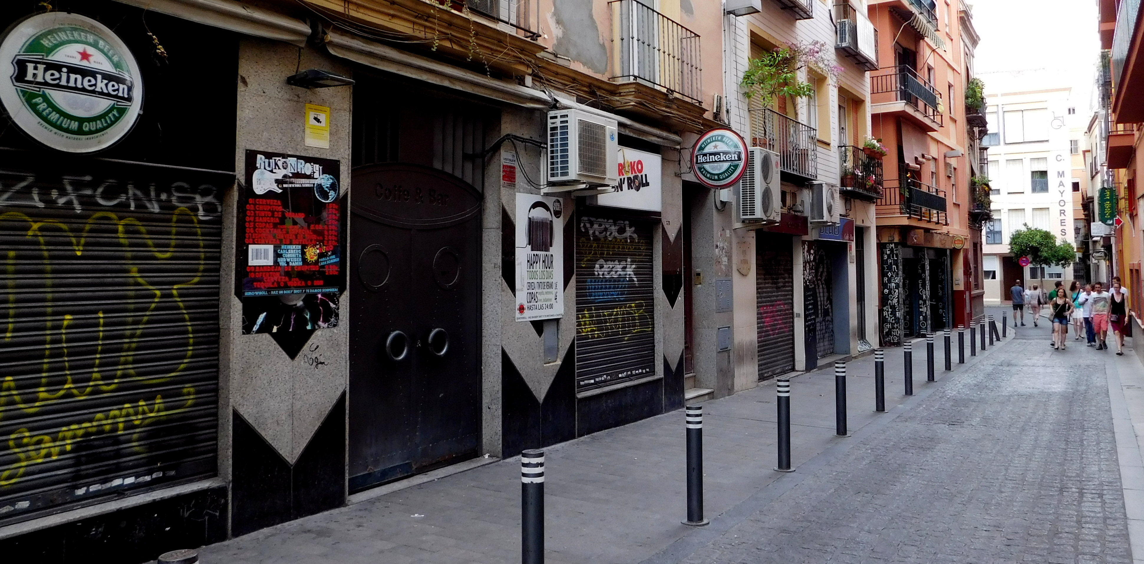 Street of the Alfalfa, Seville.